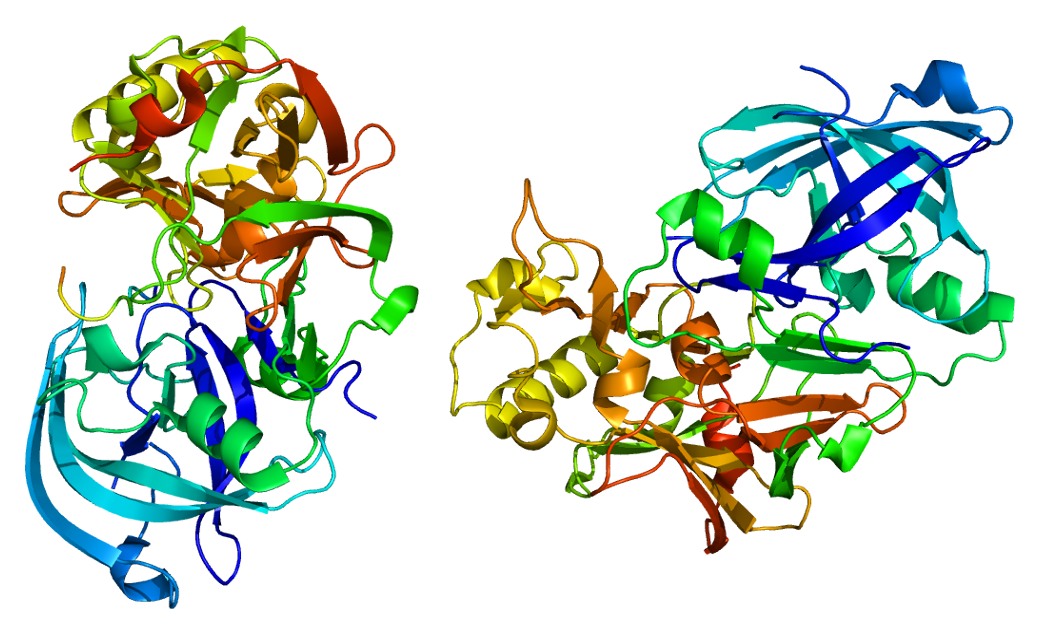 Structure of the BACE1 protein. Based on PyMOL rendering of PDB 1fkn.